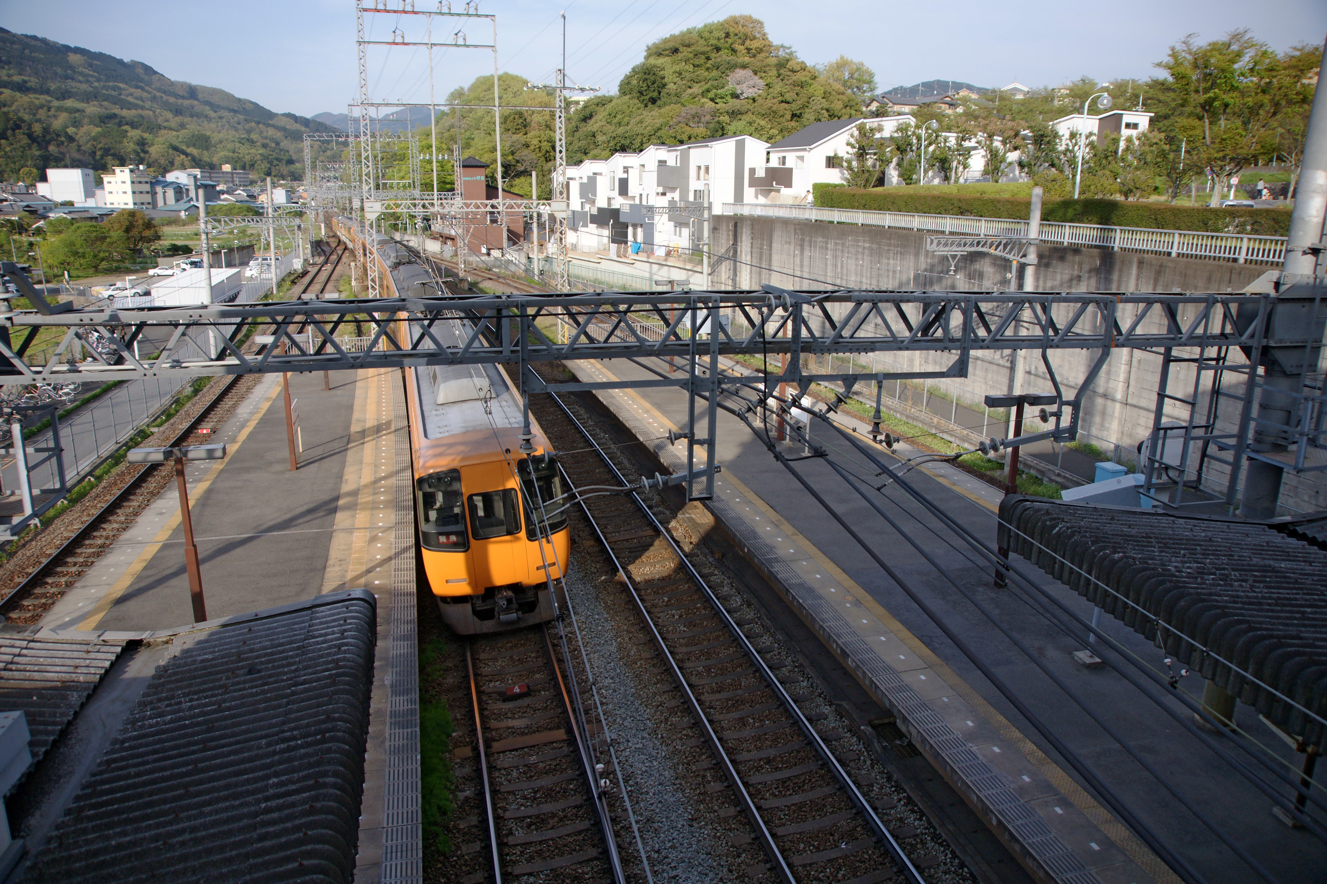 Yamato-asakura Station, Sakurai, Nara prefecture, Japan